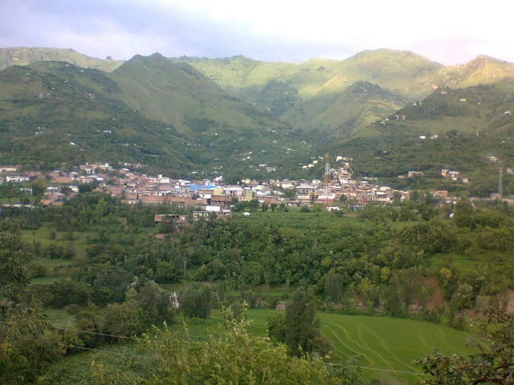 Puran Shangla Khyber Pakhtunlhwa Pakistan